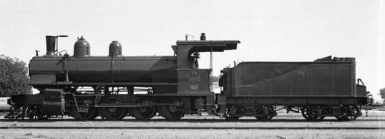 CFE Nr. 28 in Djibouti